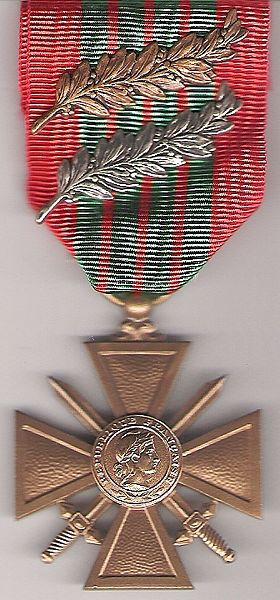 The Cross of French war of 1939-1945 (front) with bronze palm, silver palm. (Quoted in the order of the army, then five citations in the order of the army).